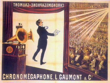 Description: Low-resolution image of poster for 1902 Gaumont sound film exhibition Original rights holder: Gaumont Source: Galerie d'affiches: 1900-1910 Public domain explanation The image was published in France as an anonymously designed business advertisement over 70 years ago. There is no evidence that the image has ever been published with the artist's or artists' names and a copyright claim.